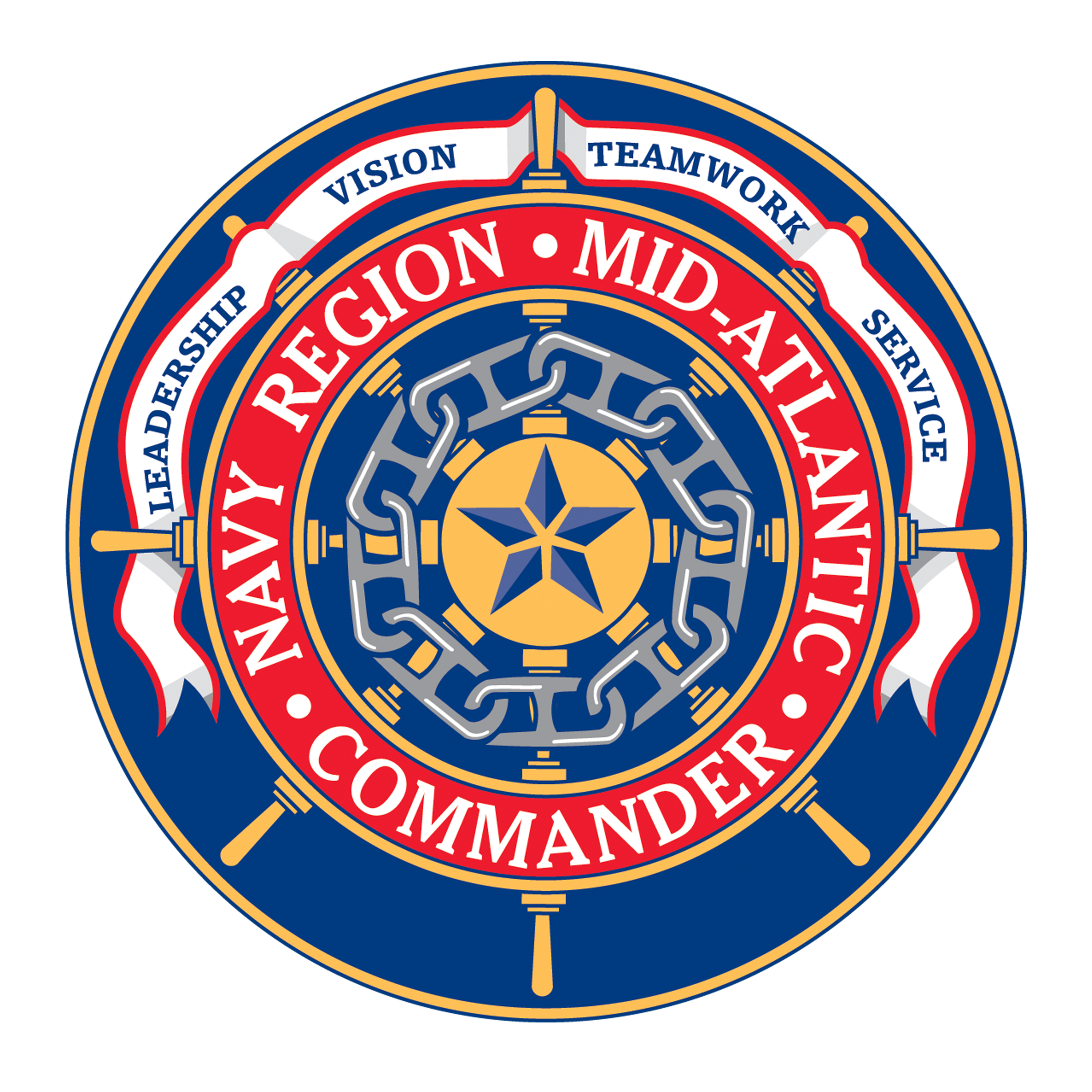 Logo of the Commander, Navy Region Mid-Atlantic